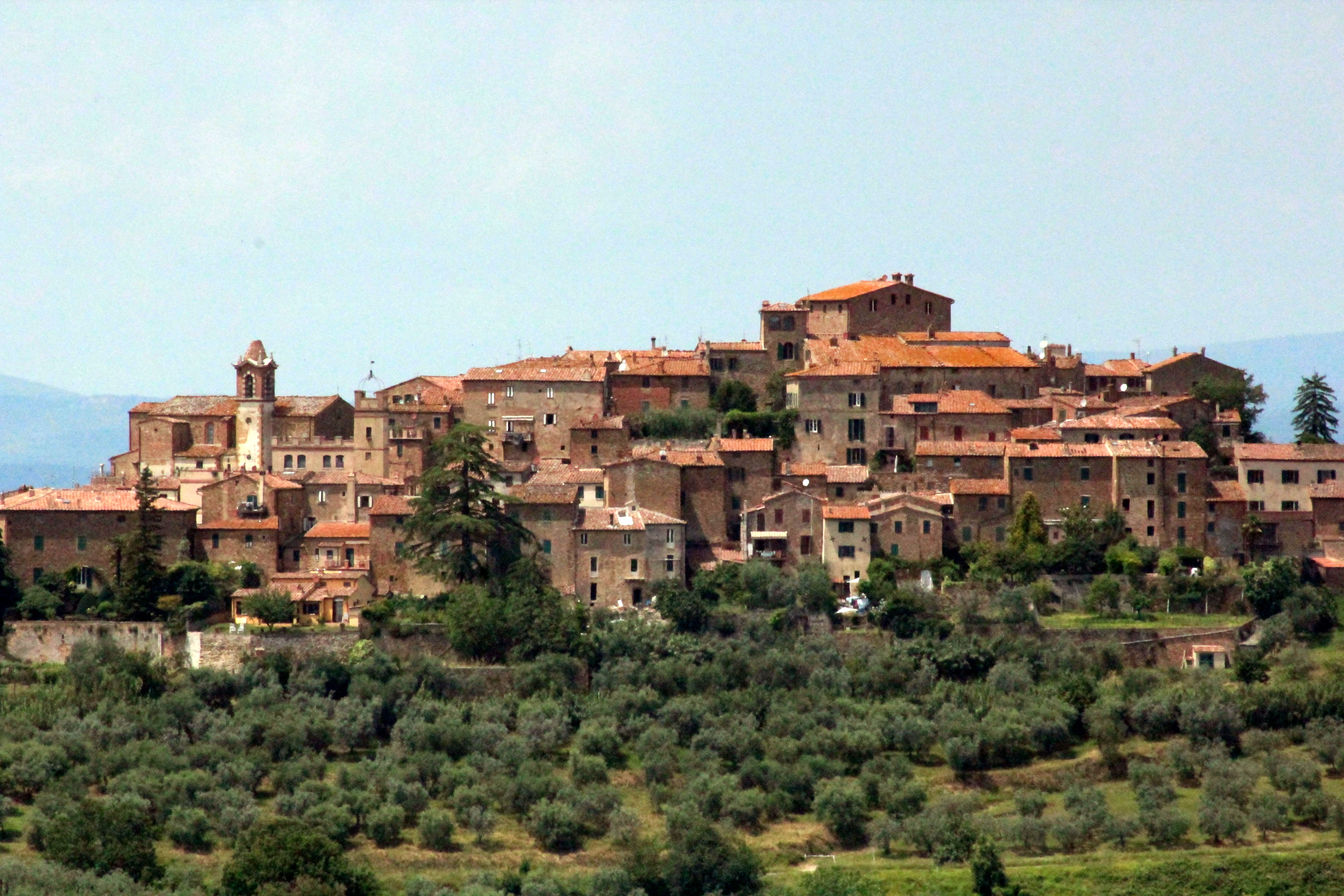 Panorama of Montisi, hamlet of San Giovanni d’Asso, Province of Siena, Tuscany, Italy